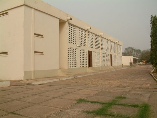 Presec Assembly Hall